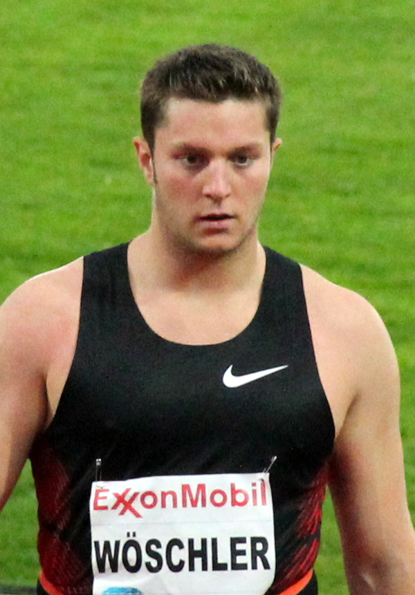 Till Wöschler at the 2011 Bislett Games